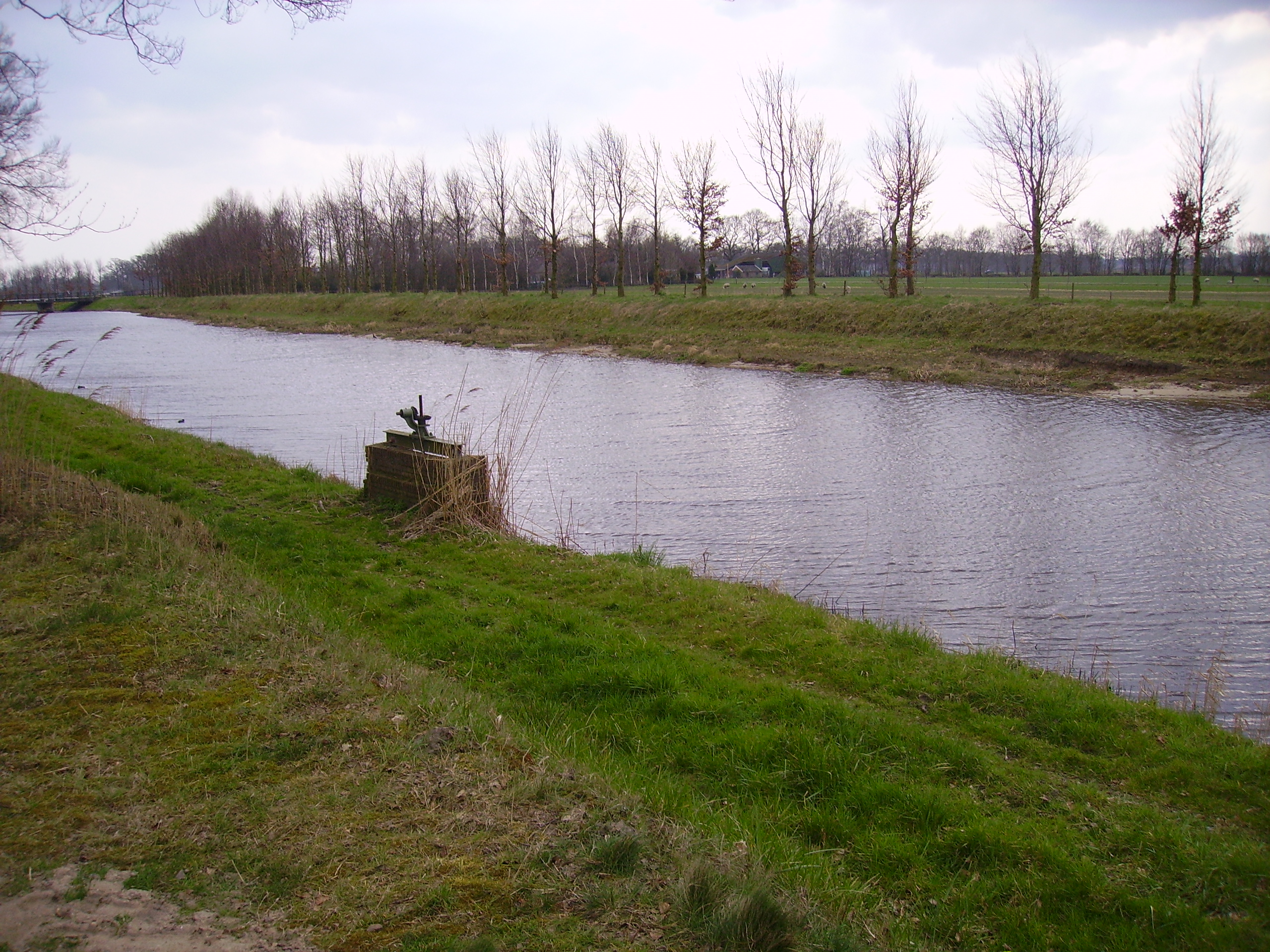 The beginning of the Oude Schipbeek (left).